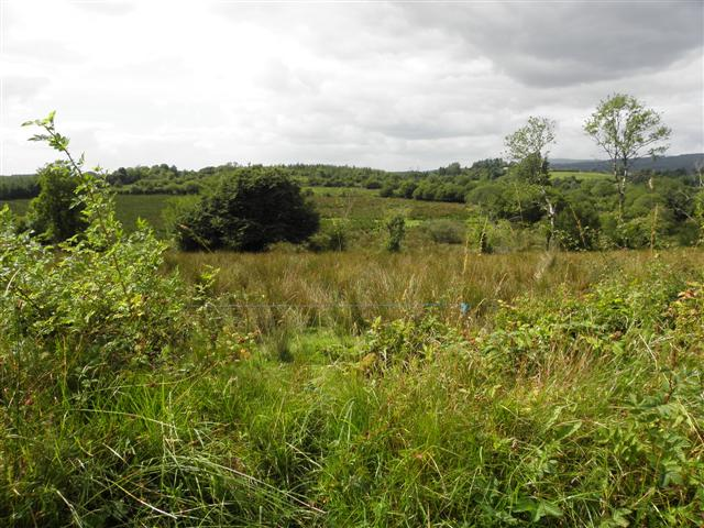 Bonebrook Townland